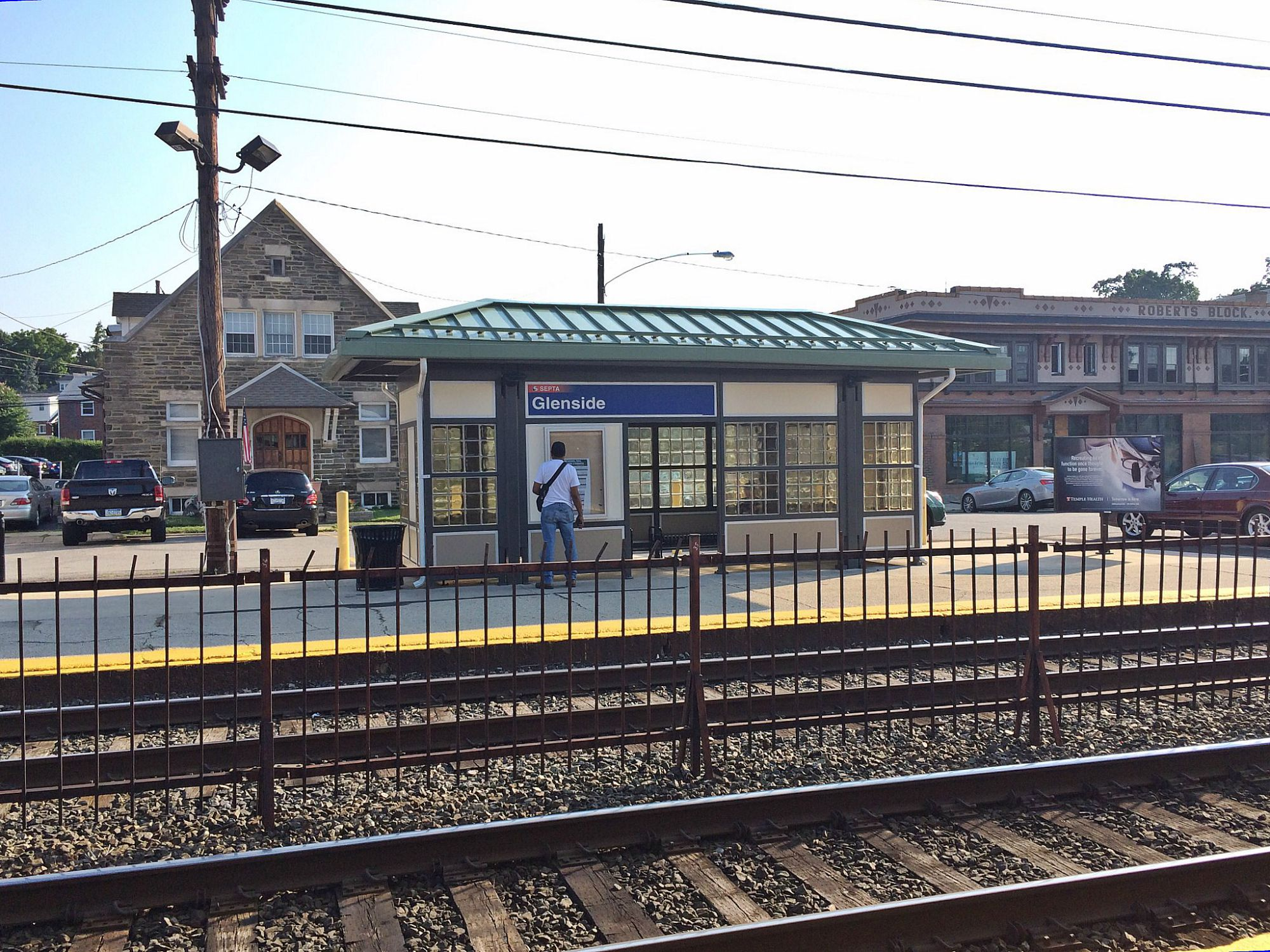 Northbound platform of Glenside SEPTA station